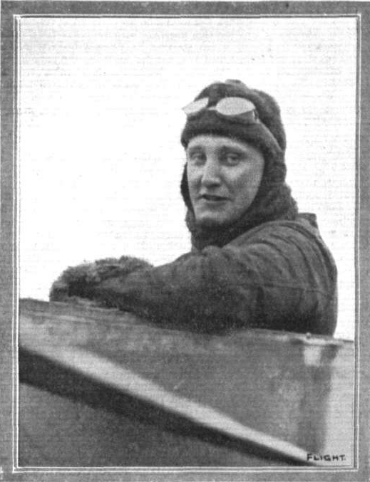 An image of Damer Leslie Allen, first published in Flight Magazine on 27 April 1912 ( and reproduced with the permission of the editor of that publication (see below).